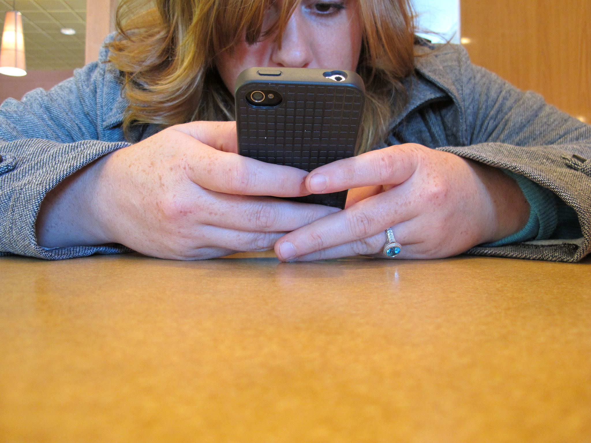 ...i'mma letchu finnish, but...